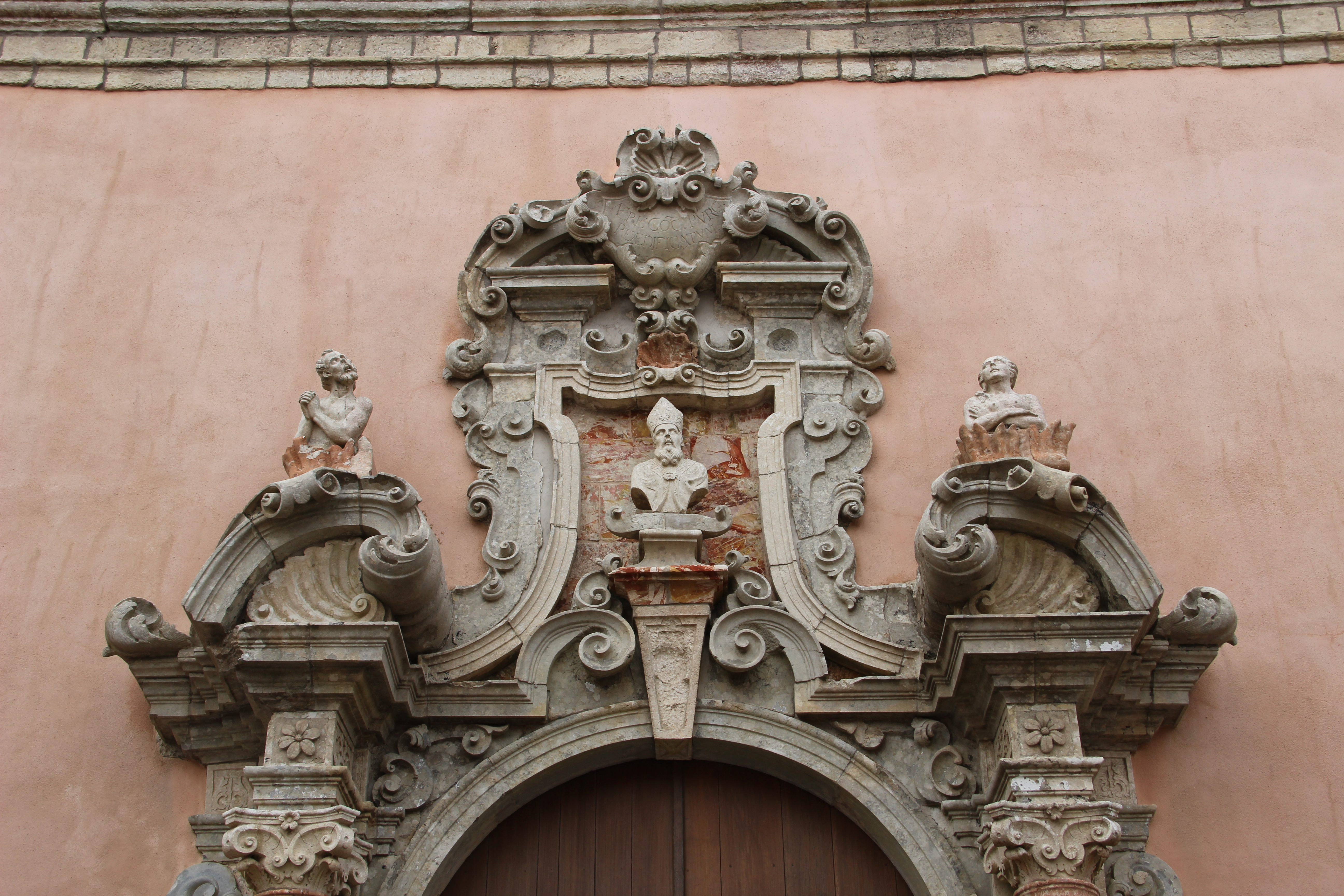 91016 Erice TP, Italy